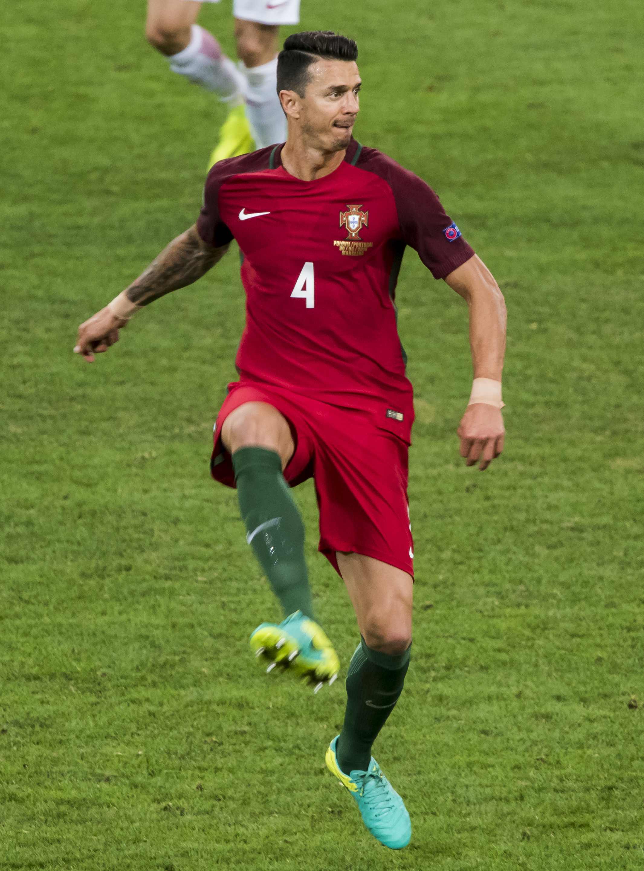 José Fonte portugal versus poland uefa euro 2016 quarterfinal